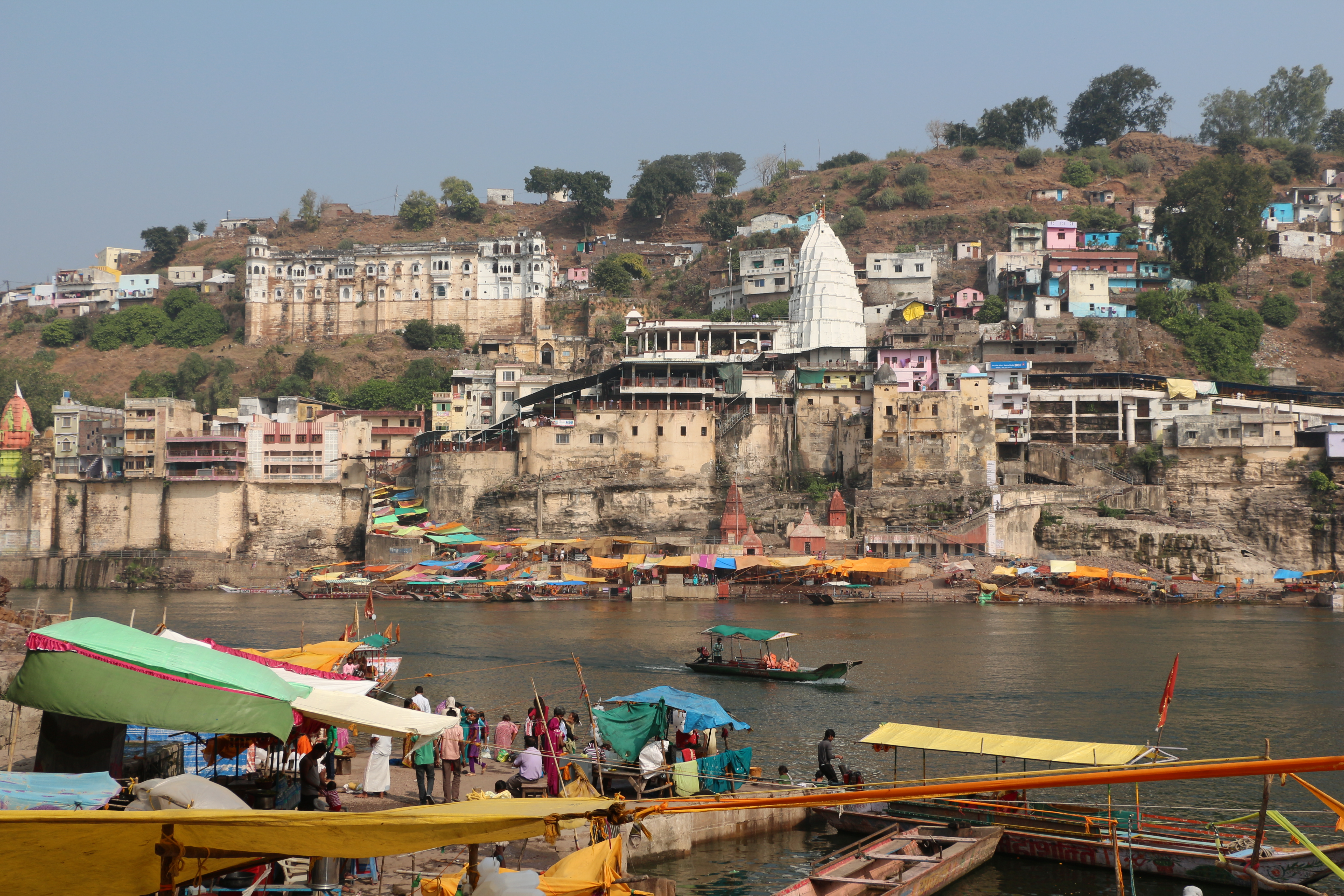 Omkareshwar Mahadev Temple, Omkareshwar, India